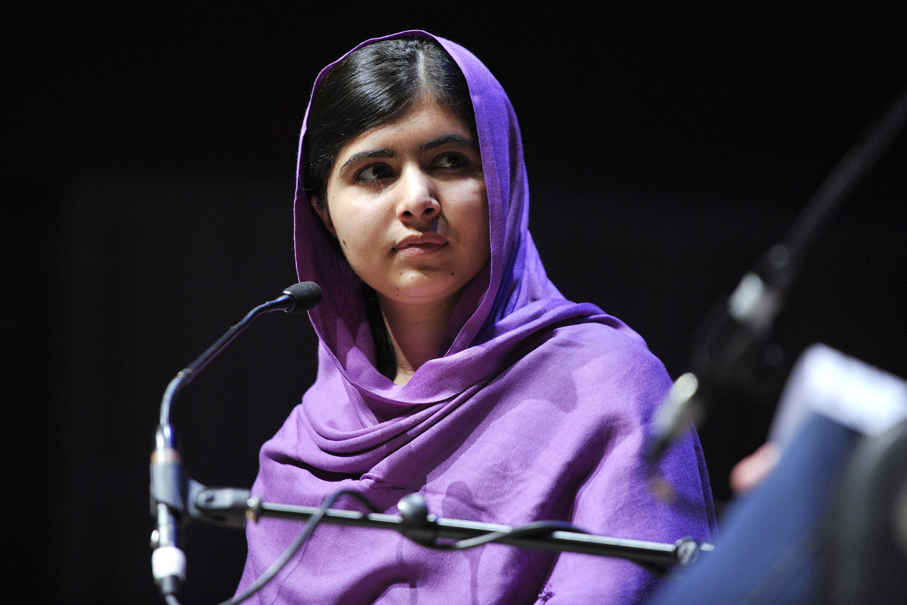 Malala Yousafzai is a campaigner who in 2012 was shot for her activist work. As part of WOW 2014, she talks about the systemic nature of gender inequality and bringing about change. More on this event